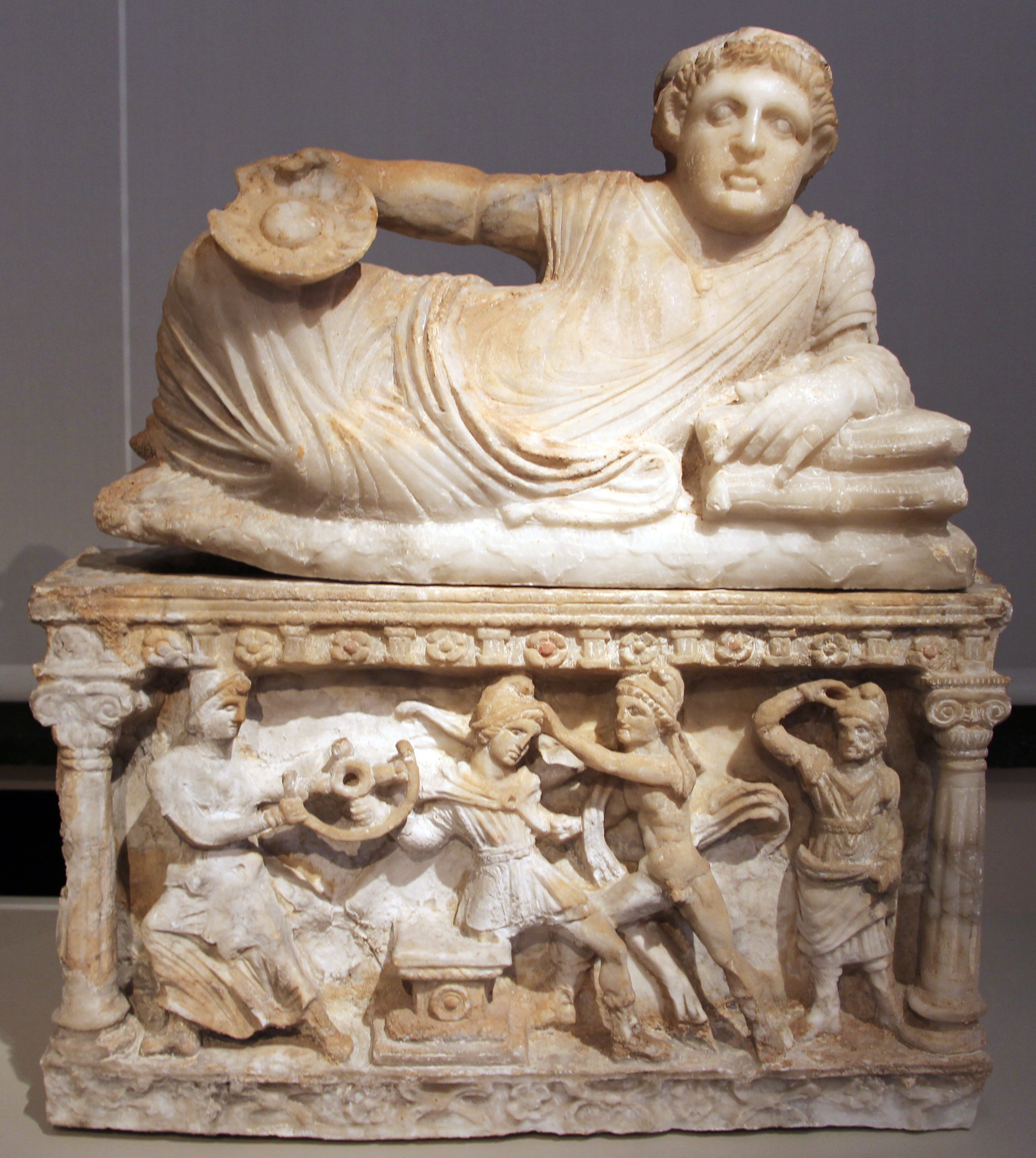 Etruscan antiquities in the Altes Museum Berlin